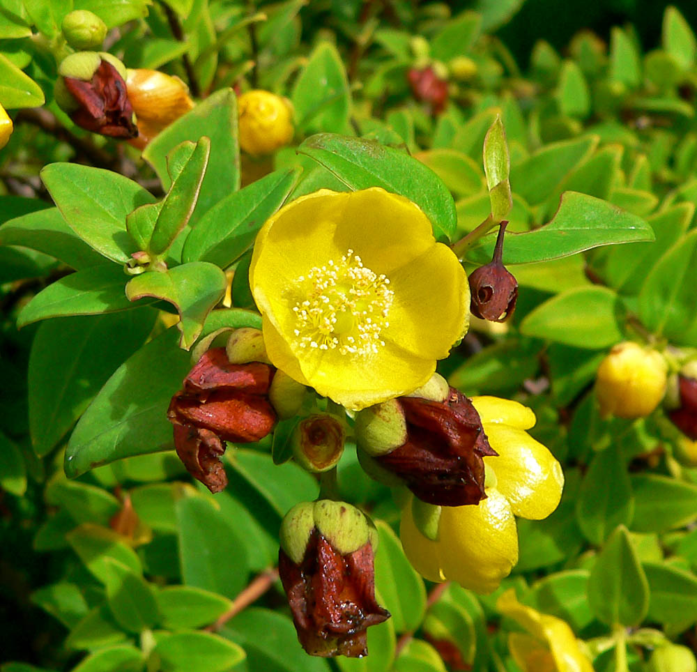 Photo of Hypericum uralum at the University of California Botanical Garden